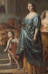 (Detail) Prince Gustavus (1632-1641) with his sister Elizabeth of the Palatinate (1618-1680), eldest daughter of the Queen of Bohemia.